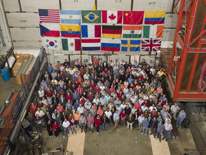 DZero Collaboration group photo taken on 09/27/2007